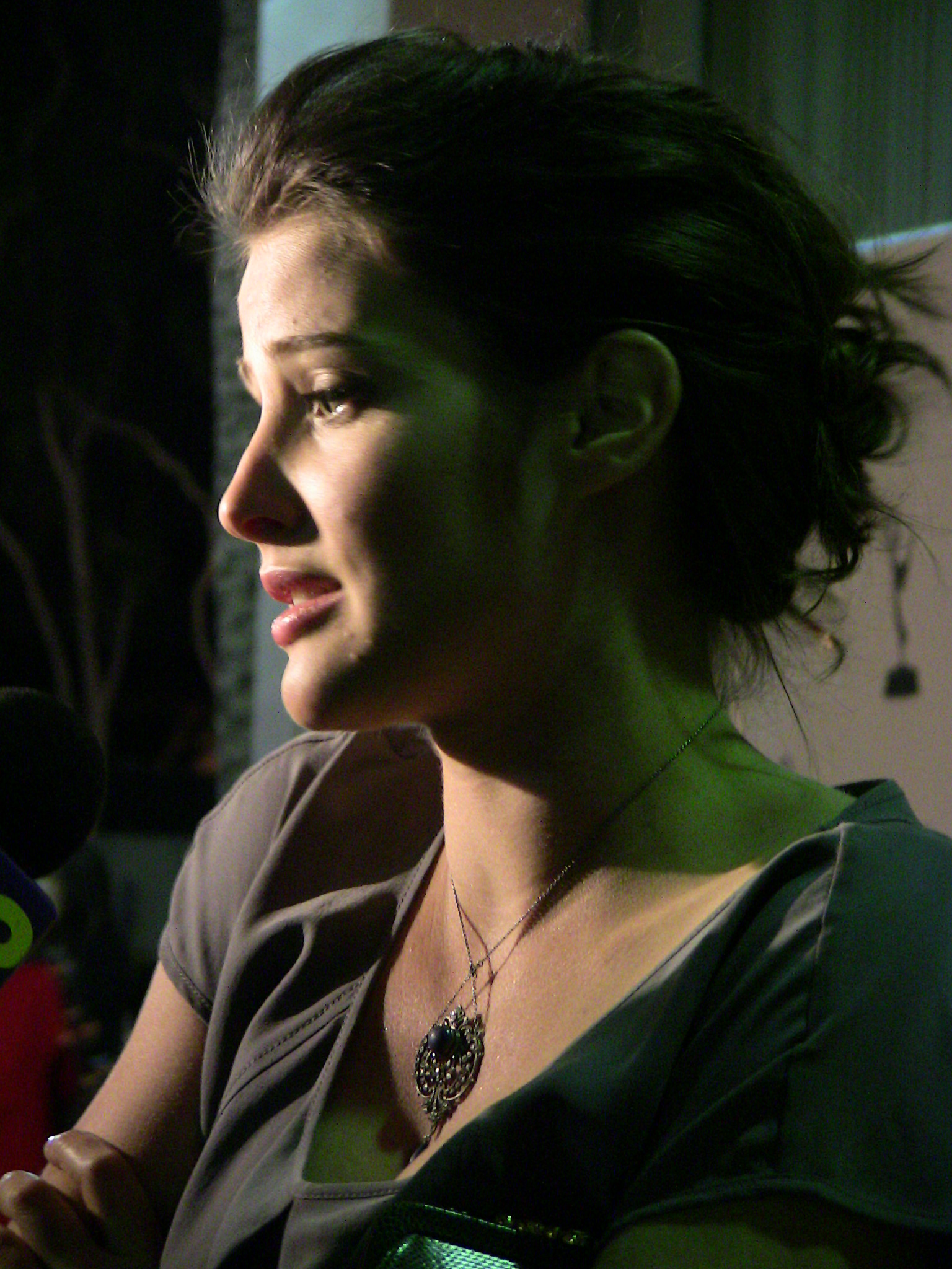 Actress Cobie Smulders - Academy Of Television Arts & Sciences Presents An Evening "With How I Met Your Mother", 2009